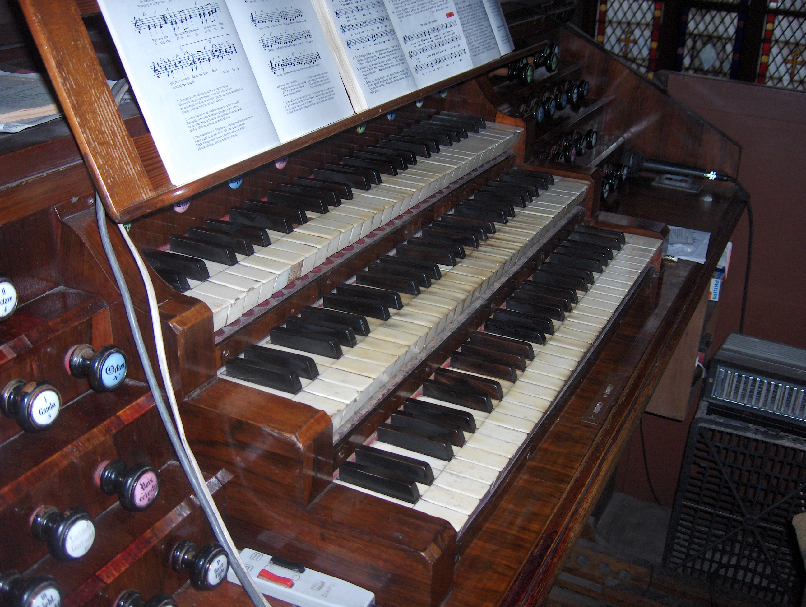 Contuer of Wilhelm Sauer's Organs in Bydgoszcz, Poland